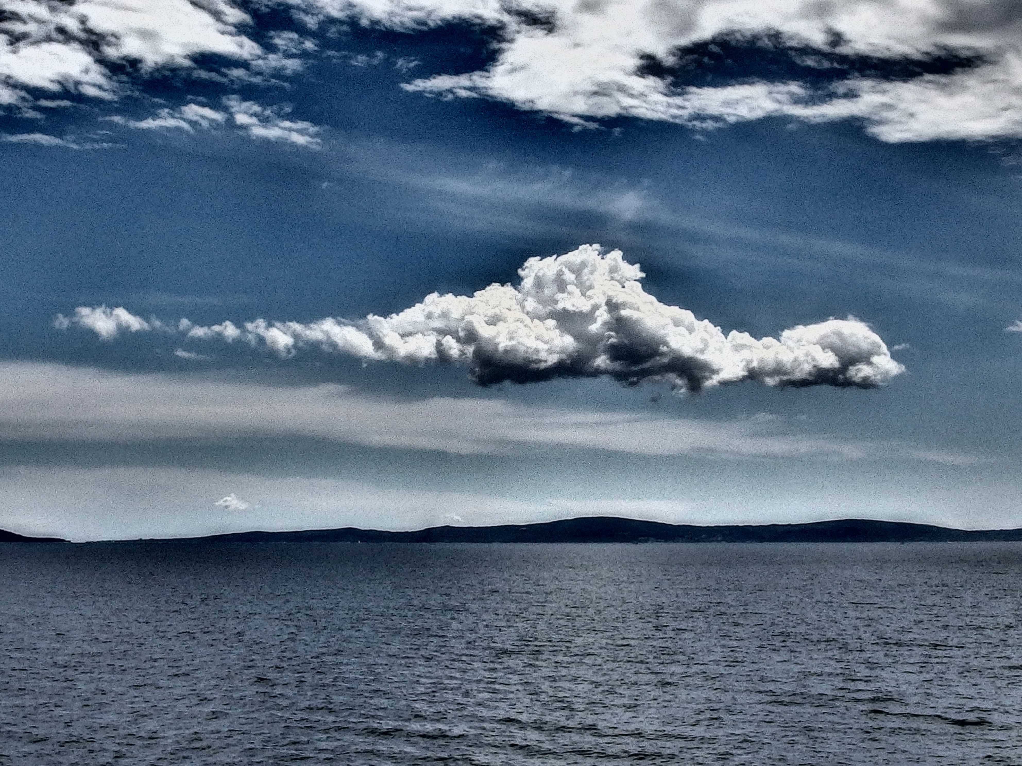 2013-06-04 on the Adriatic sea between Split and Brač.